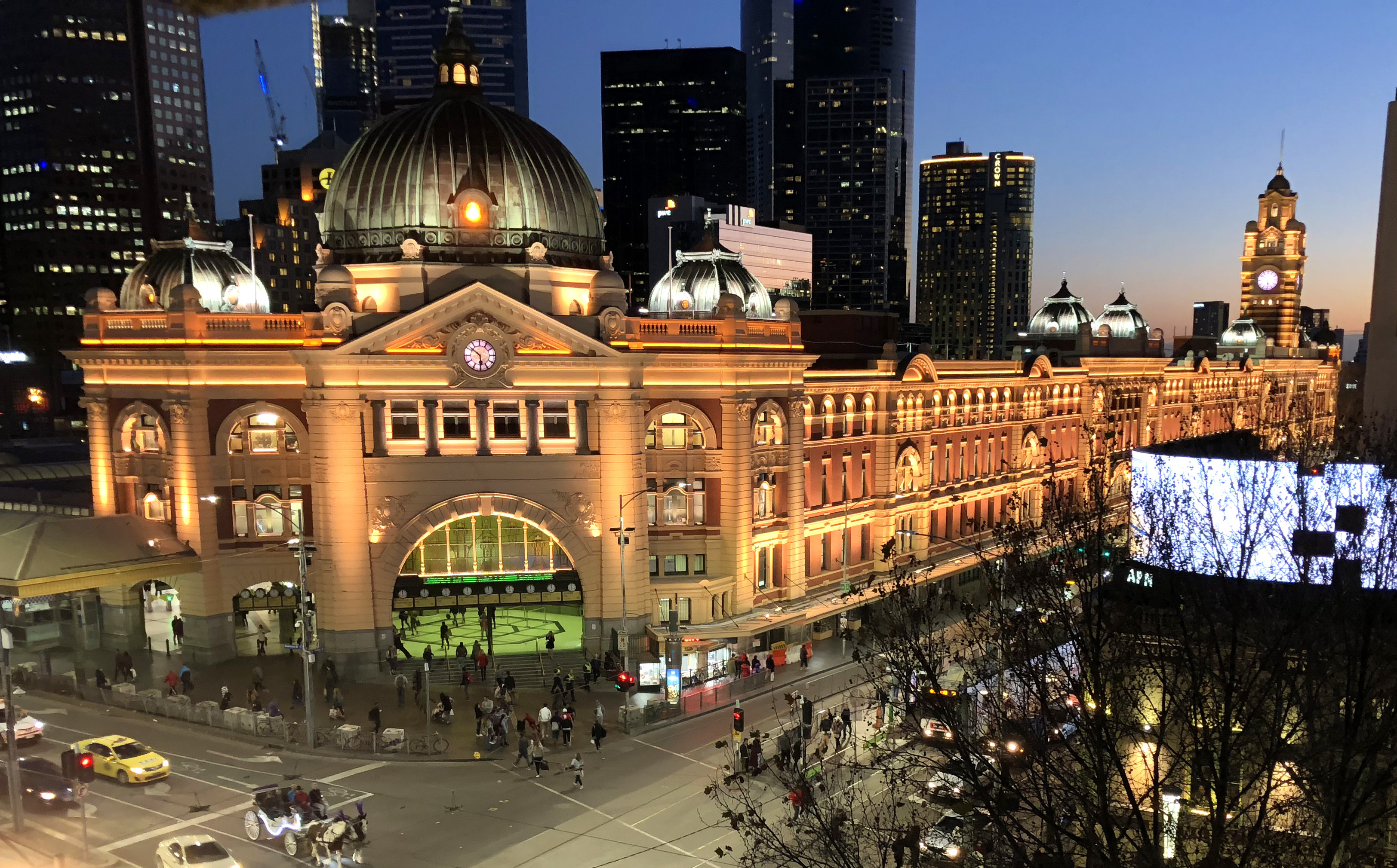 The exterior of a train station from the 1900s illuminated at night on the corner of a city street.